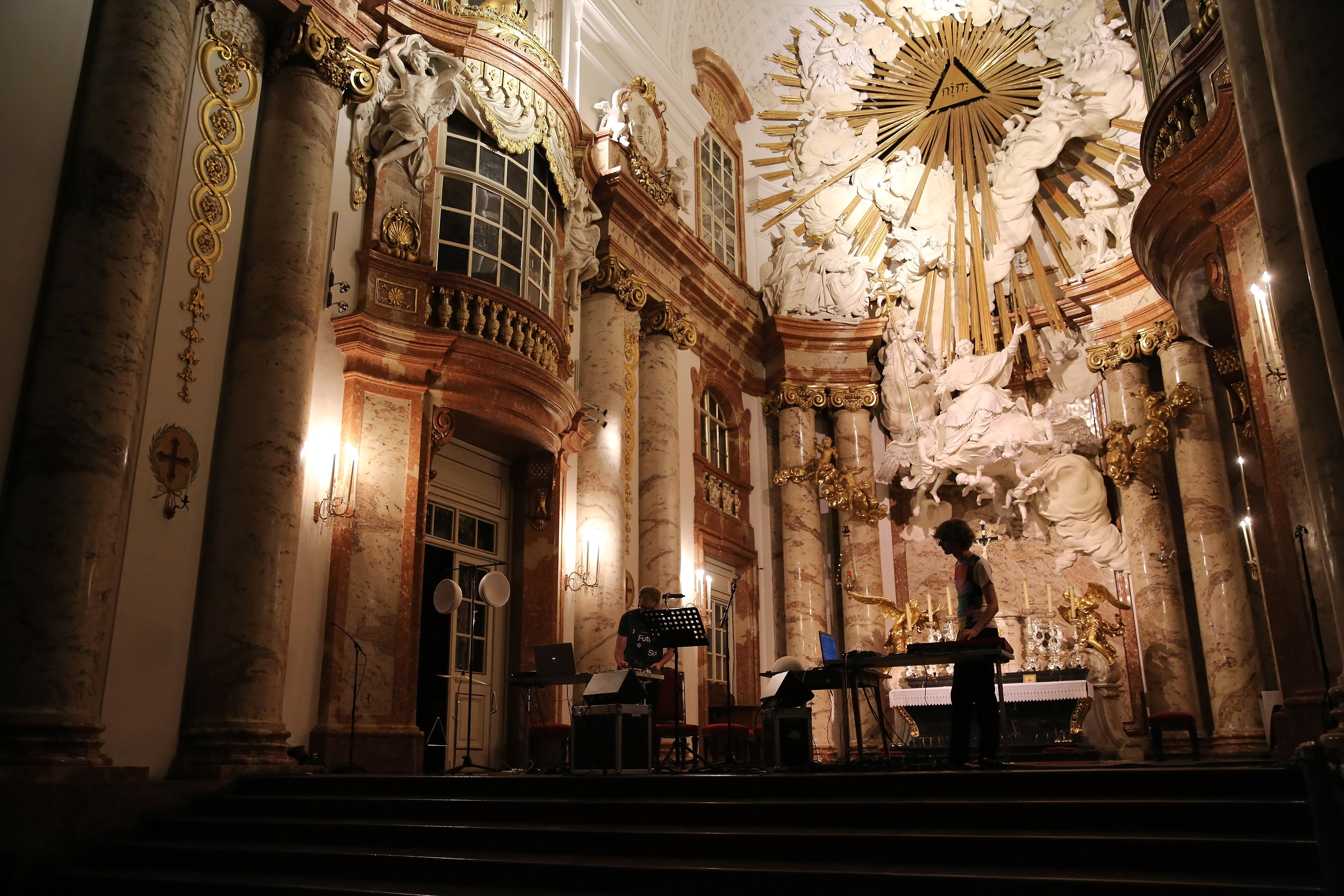 Ritornell and Mimu Merz, concert at Karlskirche during Popfest 2013 in Vienna, Austria.